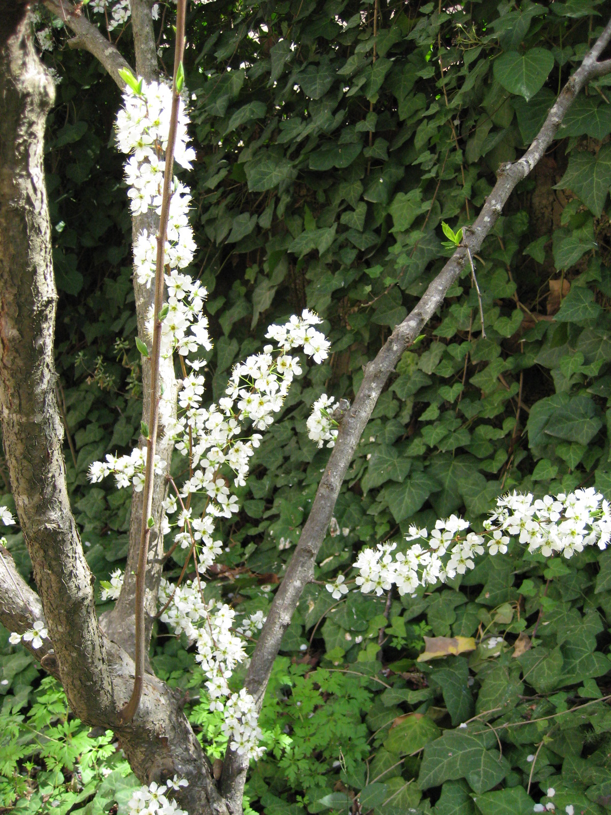 Har Adar, plum tree blossoms in the spring